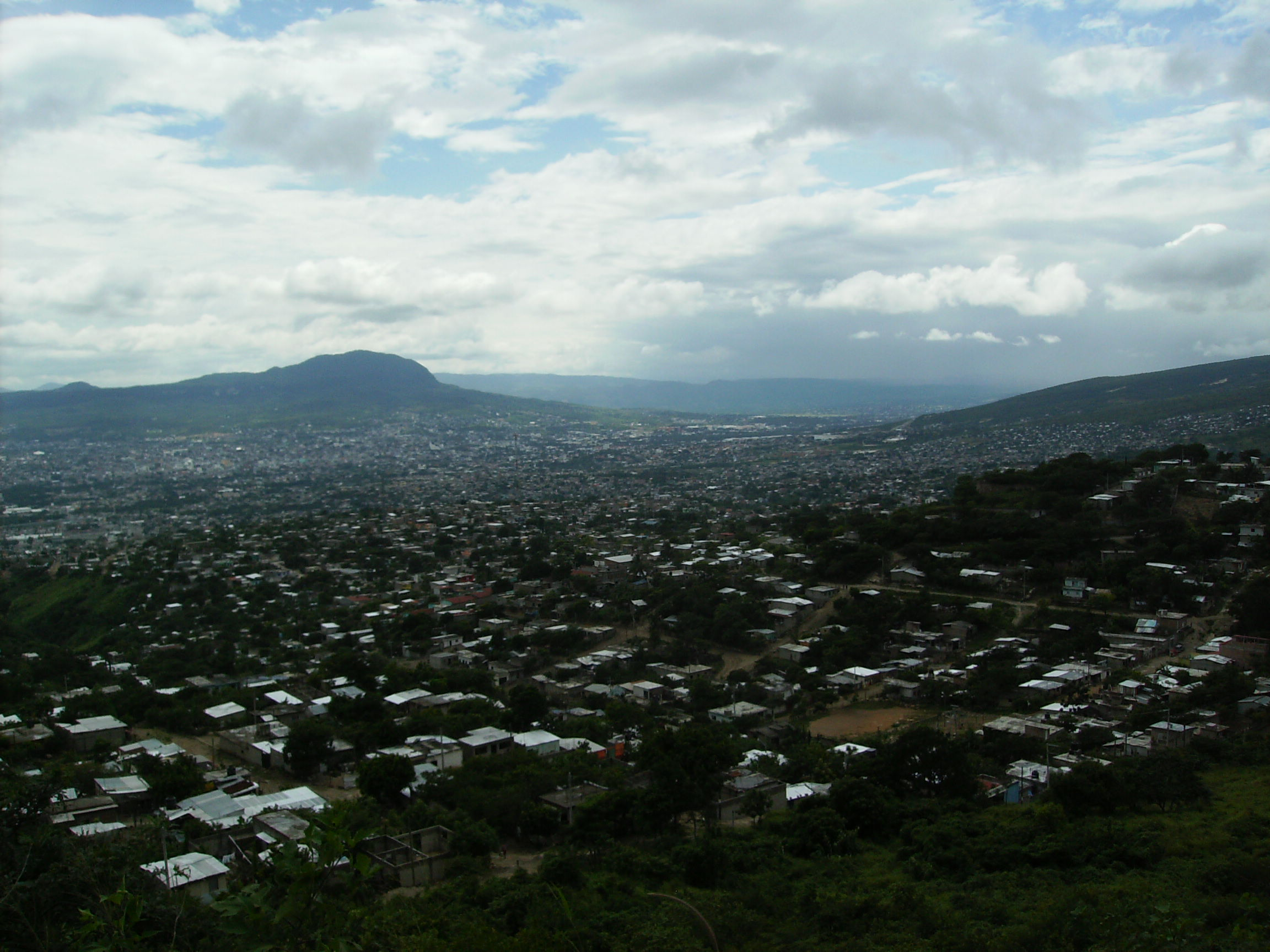 Overlooking the city of Tuxtla Gutierrez from a hill near the Sumidero Canyon.